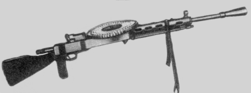 DPM light machine gun.